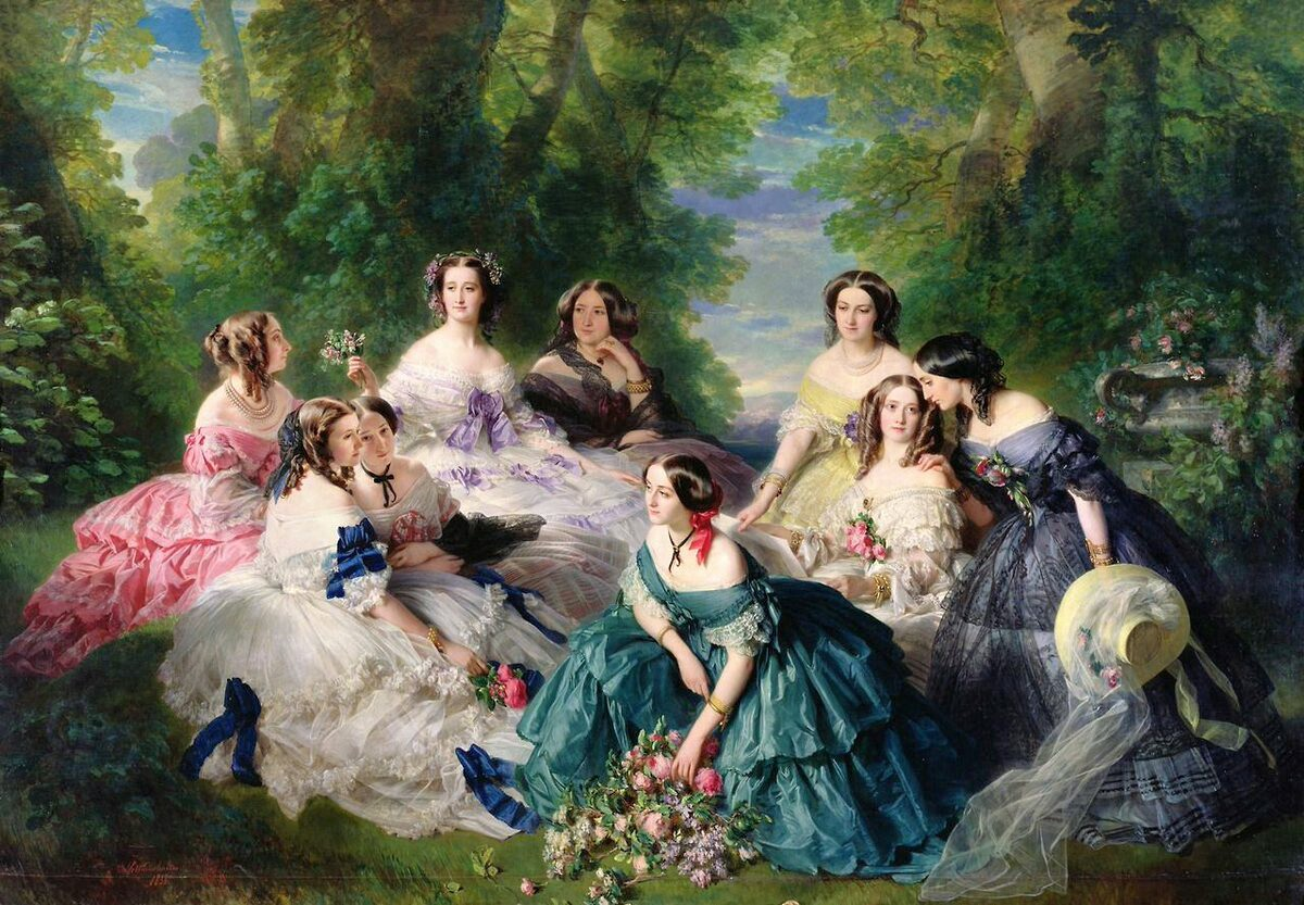 "The Empress Eugenie Surrounded by her Ladies in Waiting", by Franz Xaver Winterhalter.